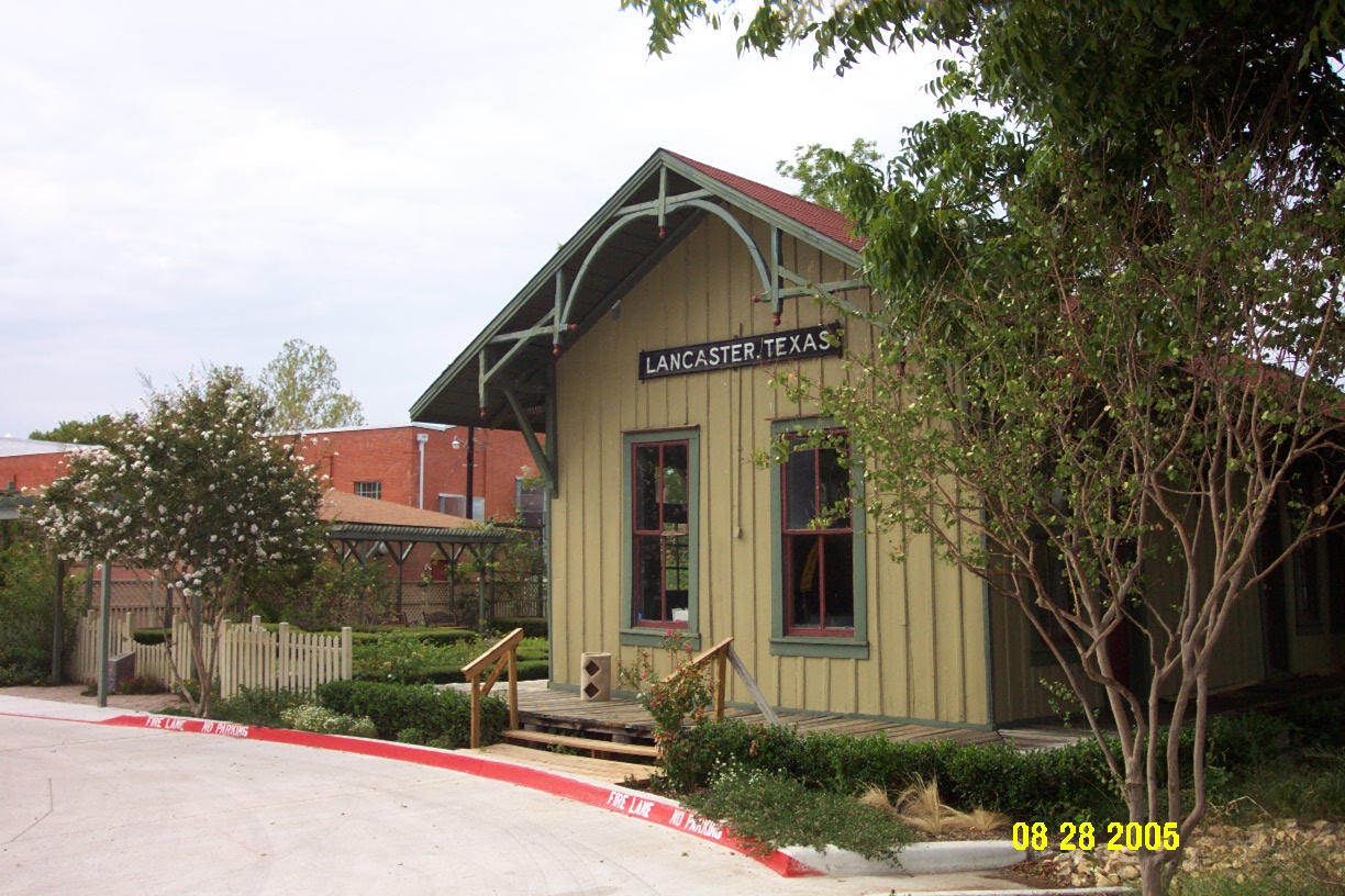 Historic MKT Depot and Rose Garden in Lancaster, Texas. Photo taken by Lynnette Lakey Taff on August 28, 2005.